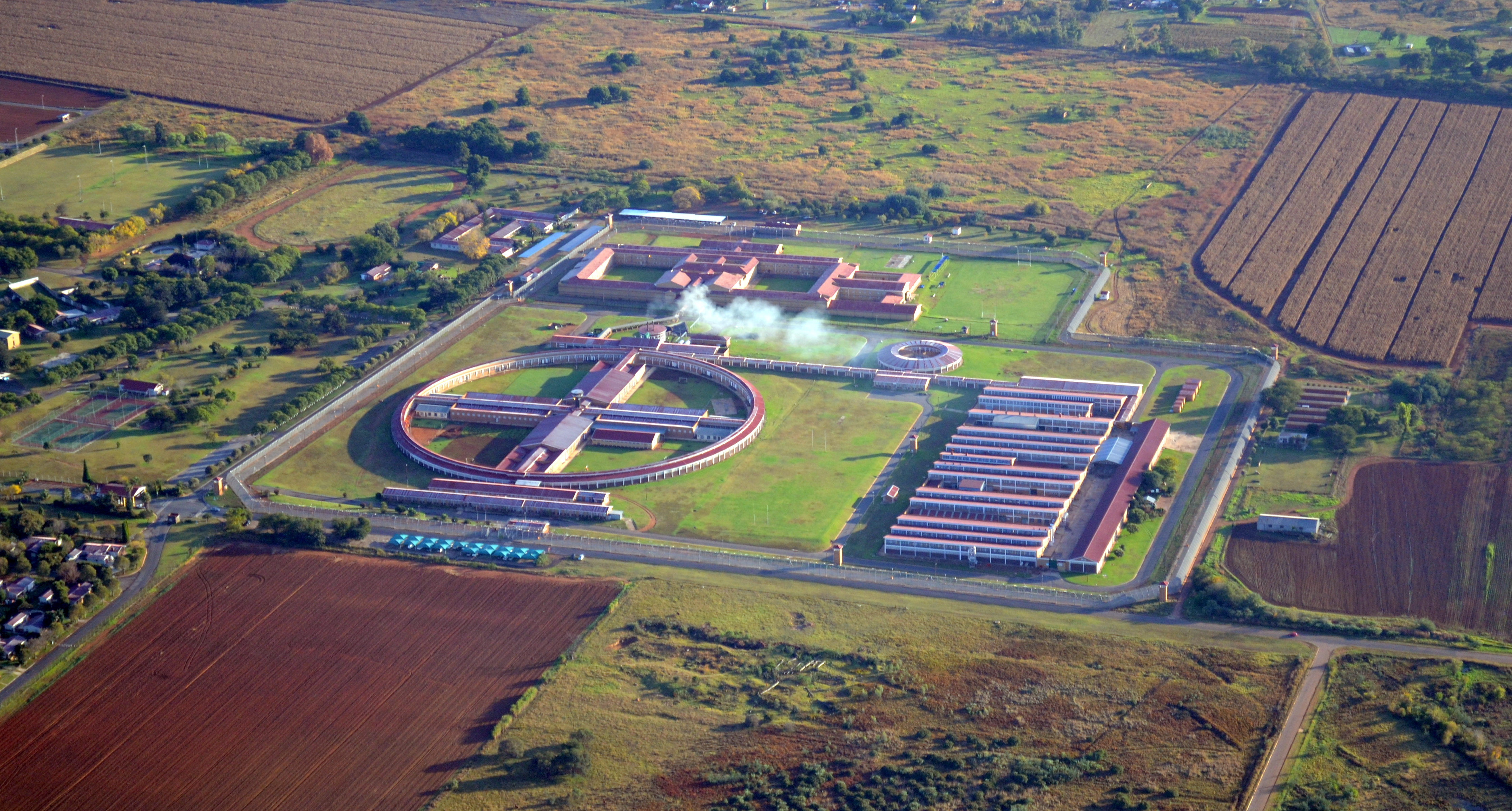 Zonderwater Prison near Cullinan, Gauteng, South Africa